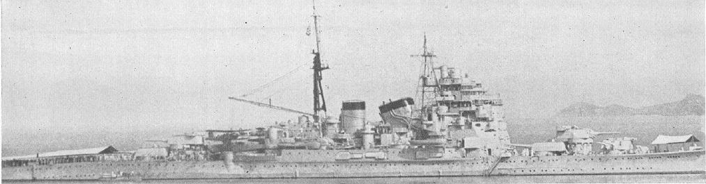 Cruiser Chokai, A503 FM30-50 booklet for identification of ships, published by the Division of Naval Inteligence of the Navy Department of the United States.